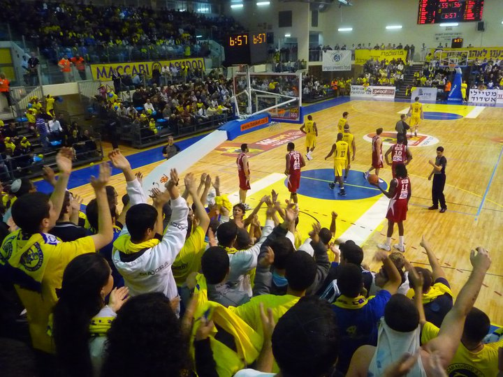 Hakiriya arena: Maccabi Ashdod vs Hapoel Gilboa Galil in the israeli cap - January 2010